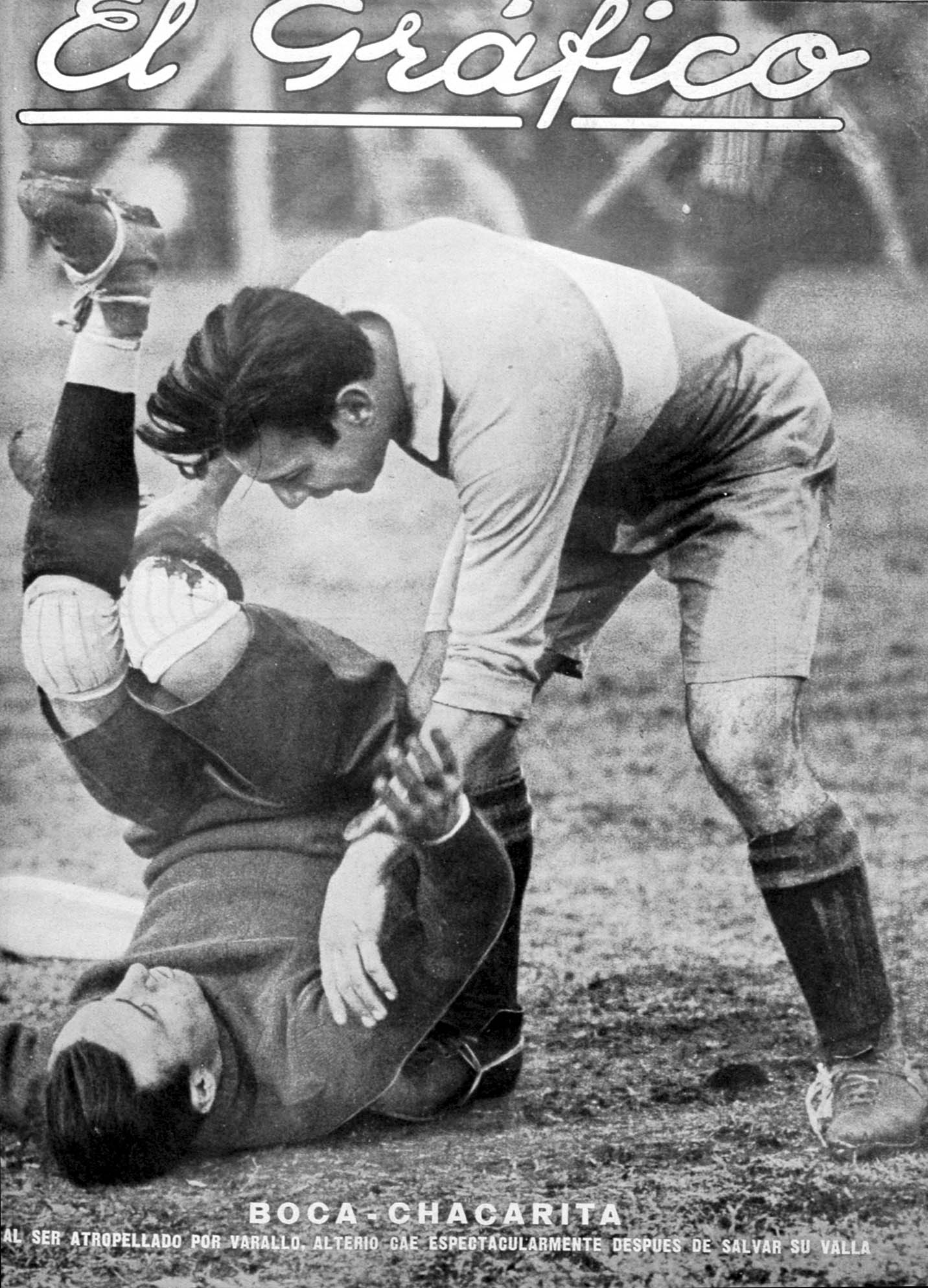 Boca (0) vs Chacarita (0); Goalkeeper Eduardo Alterio being assisted by forward Francisco Varallo after both players clashed.